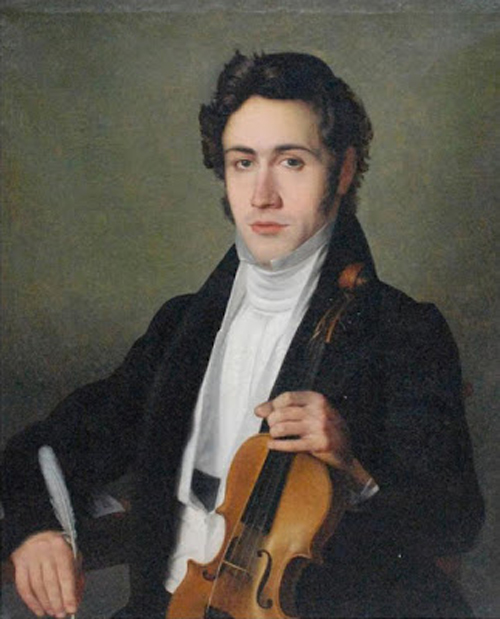 Portait of young Niccolò Paganini (France, private collection)